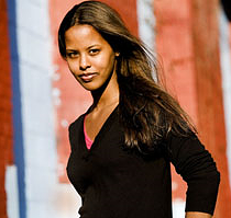 Somali filmmaker Idil Ibrahim.